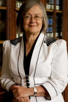 A photographic portrait of Baroness Brenda Hale